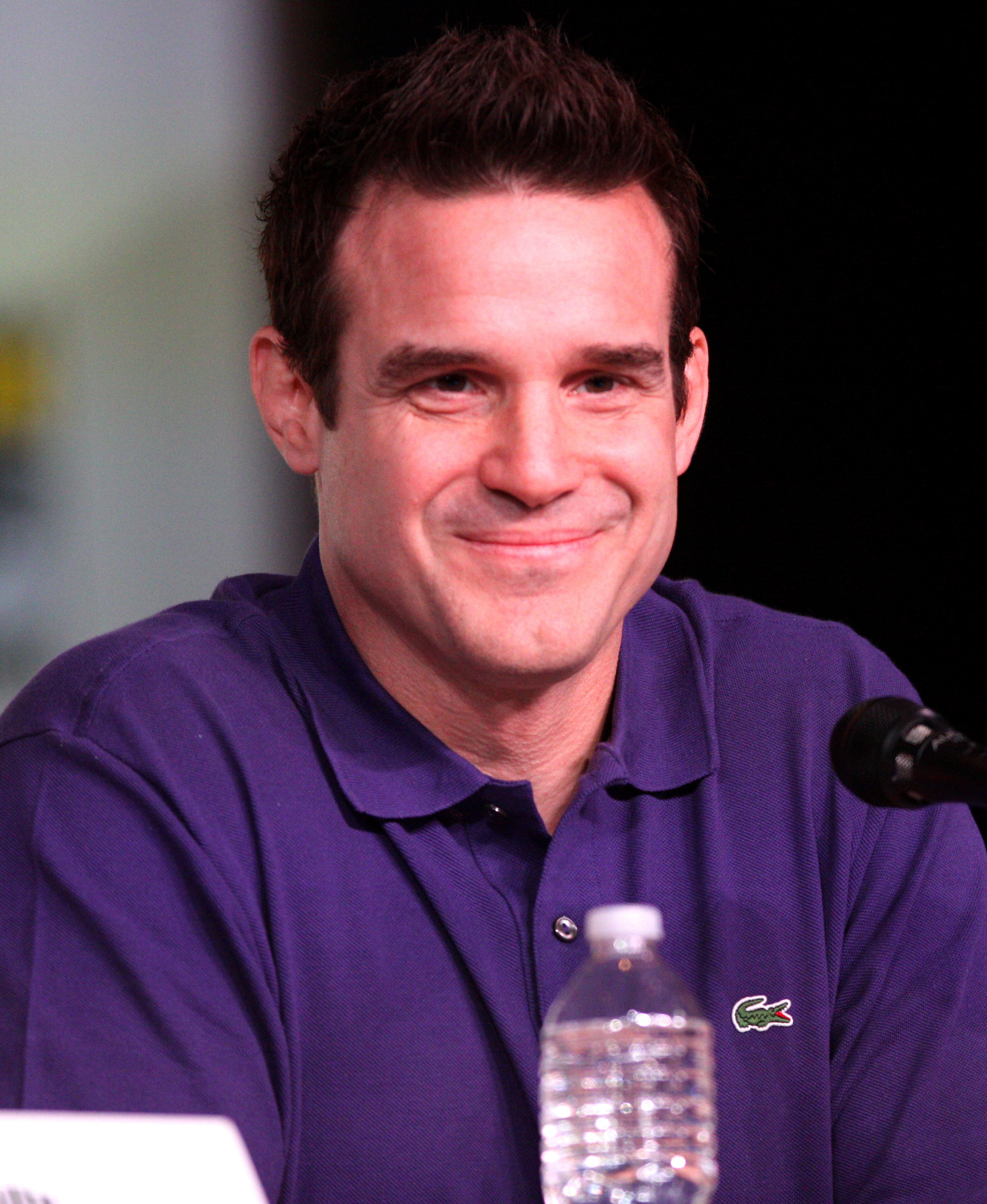 Eddie McClintock at the 2012 Comic-Con in San Diego.